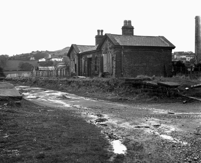 Foulridge station, Lancashire When the ex-Midland Railway line from Skipton to Colne closed in the early 1970s (a consequence of the Beeching plan) the stations were abandoned, but this one was later taken down by the Embsay and Bolton Abbey Railway and erected at Bolton Abbey where it survives today.